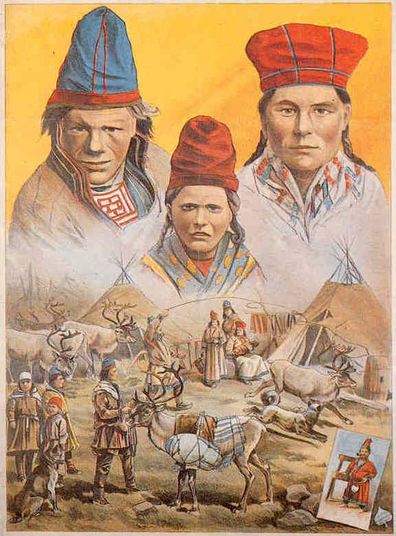 Poster advertising a Sami show arranged by Carl Hagenbeck in Hamburg-Saint Pauli